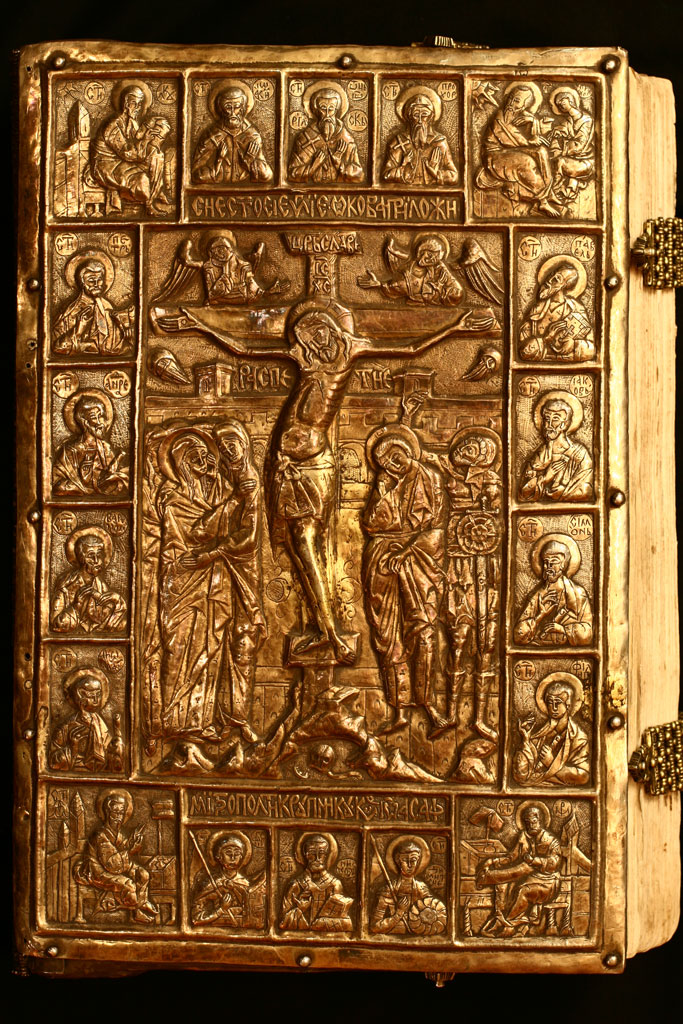 Krupnik Gospel.